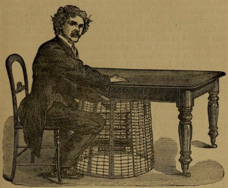 Sketch of the medium Daniel Dunglas Home performing the accordion experiment.